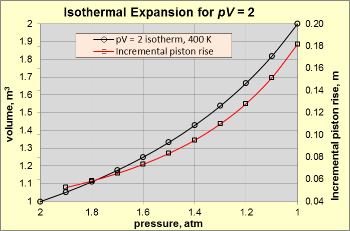 Image used in Isothermal process article.